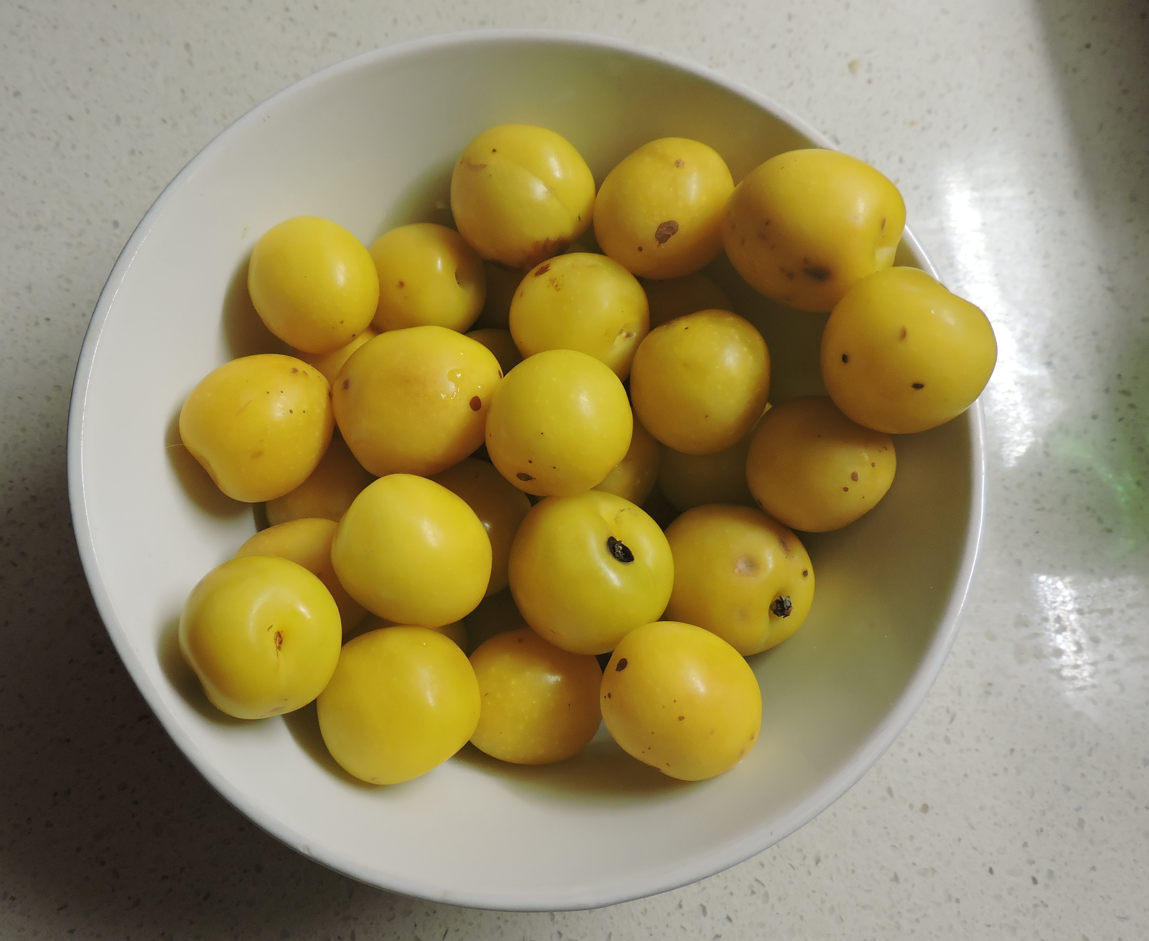 Prunus brigantina: fruits